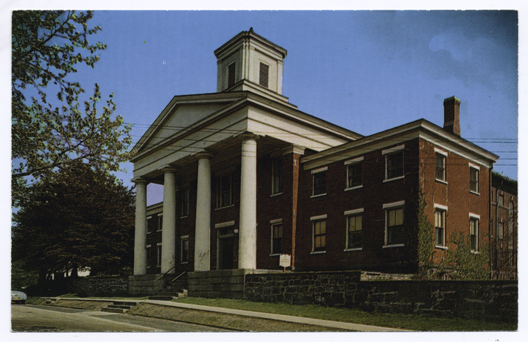 Third County Courthouse for Richmond County (Staten Island), New York. Now part of Historic Richmond Town restoration. (Photograph reproduced on a post card.)